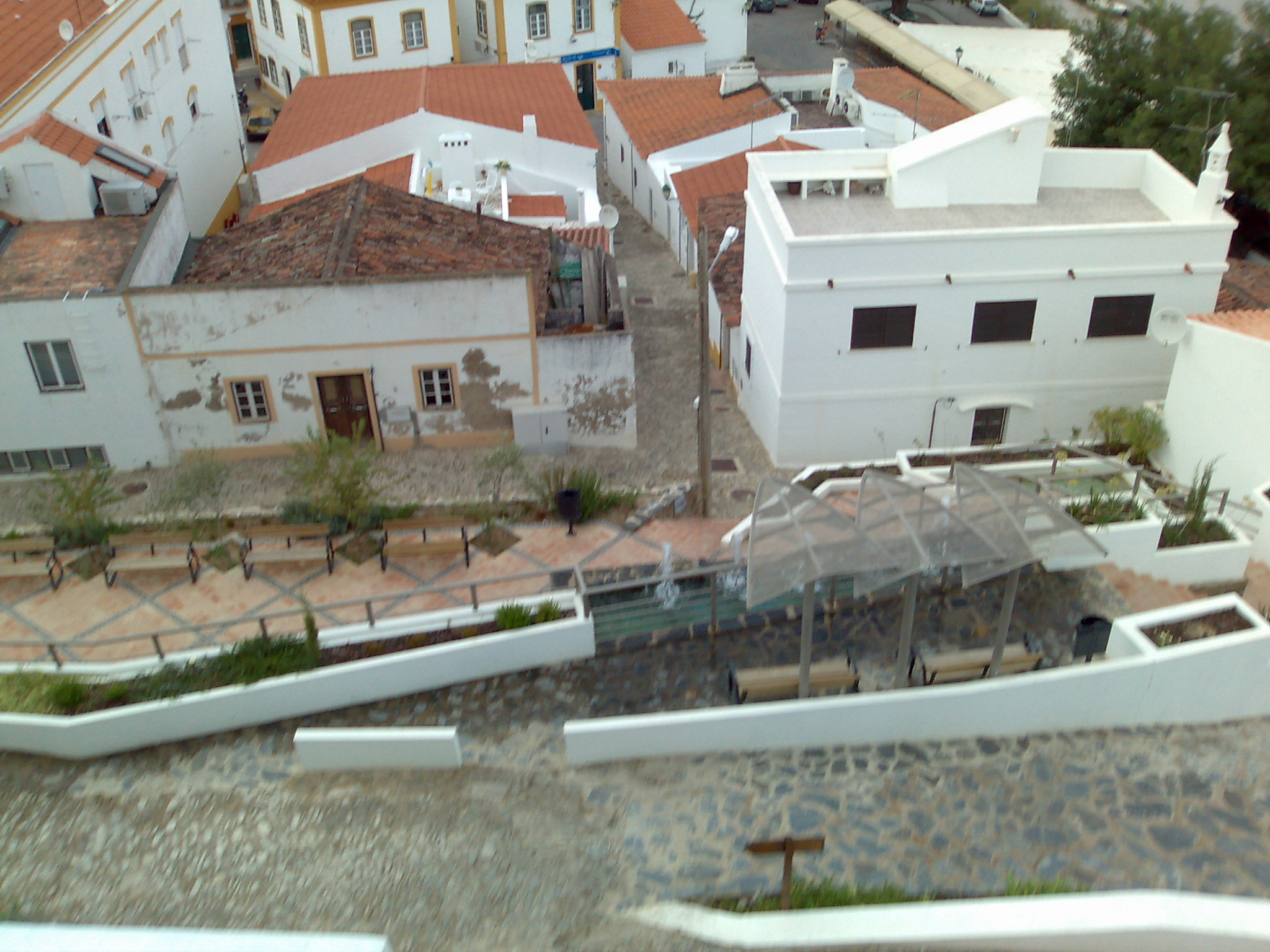 looking down on Rua da Boavista from the castle ramparts in the town of Alcoutim, Algarve, Portugal.